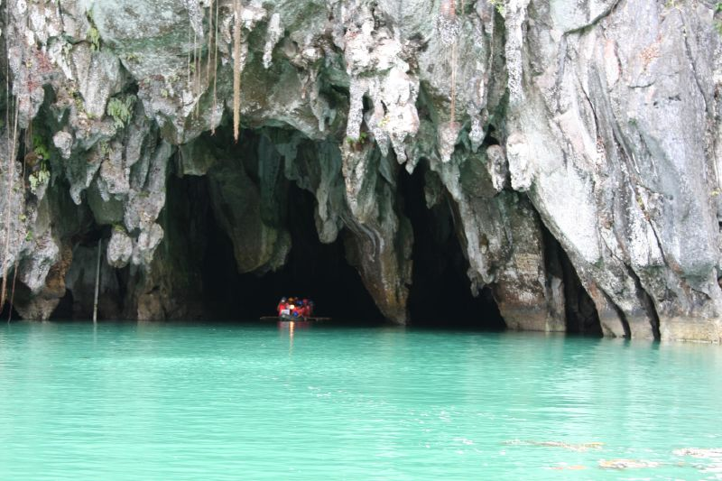 Puerto Princesa Subterranean River, Philippines: View of the cave's entrance